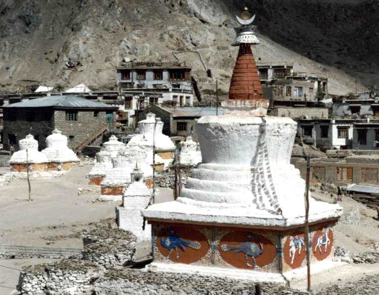 Image of a chorten (stupa) from the Ladakh region of India.